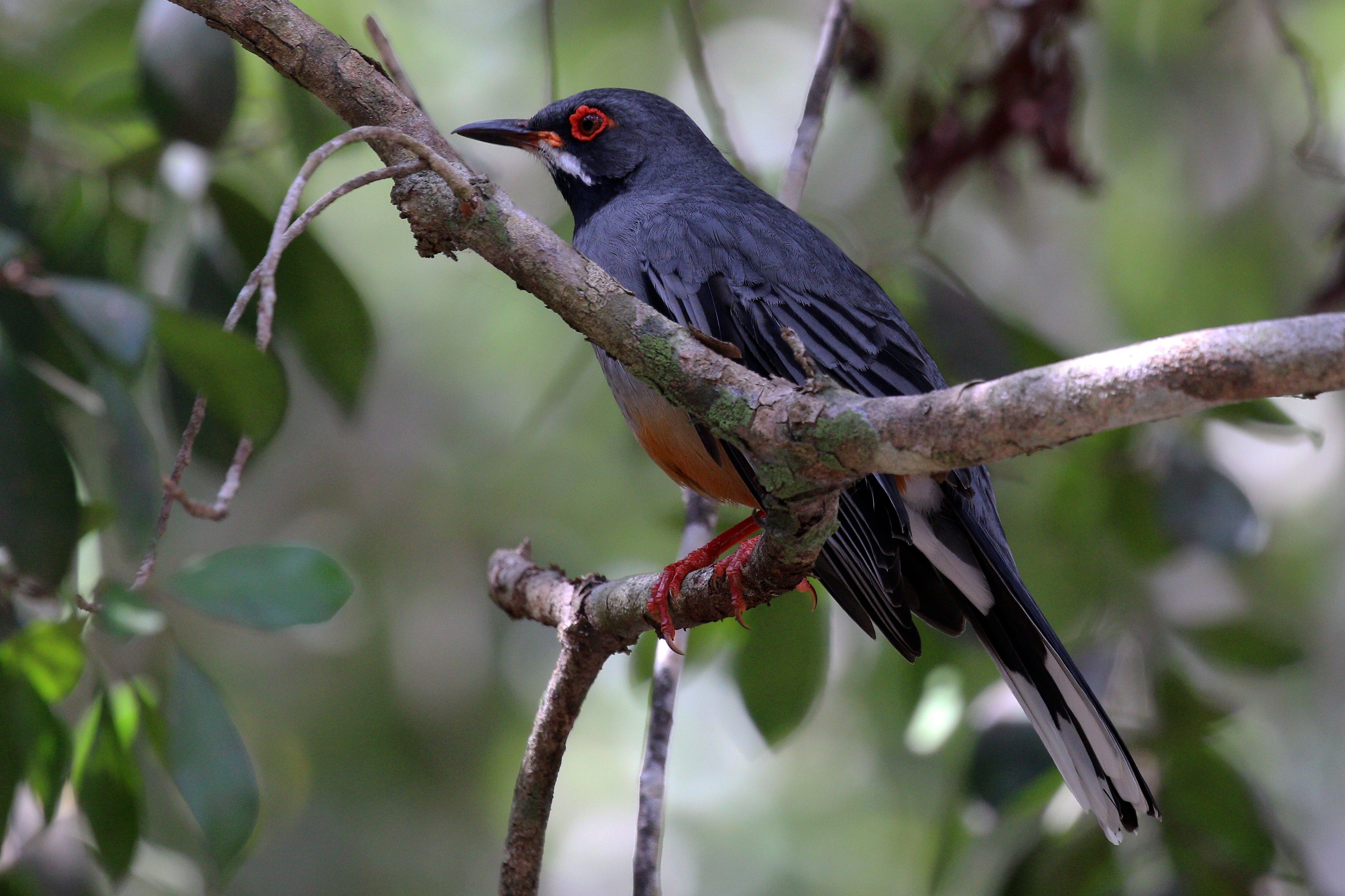 Red-legged thrush (Turdus plumbeus rubripes), Zapata National Park, Cuba